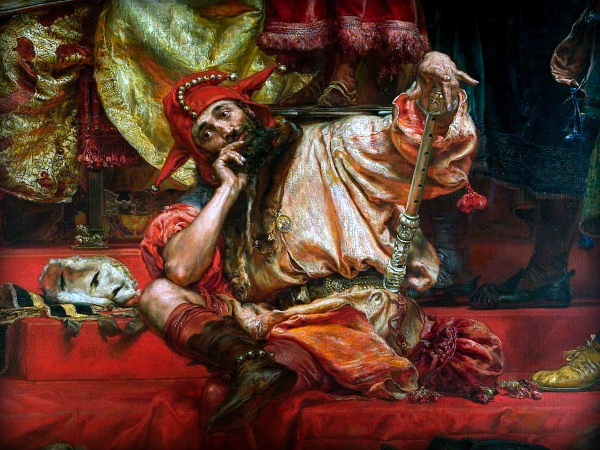 Prussian Homage by Jan Matejko. Fragment: Stańczyk. Category:Paintings by Jan Matejko